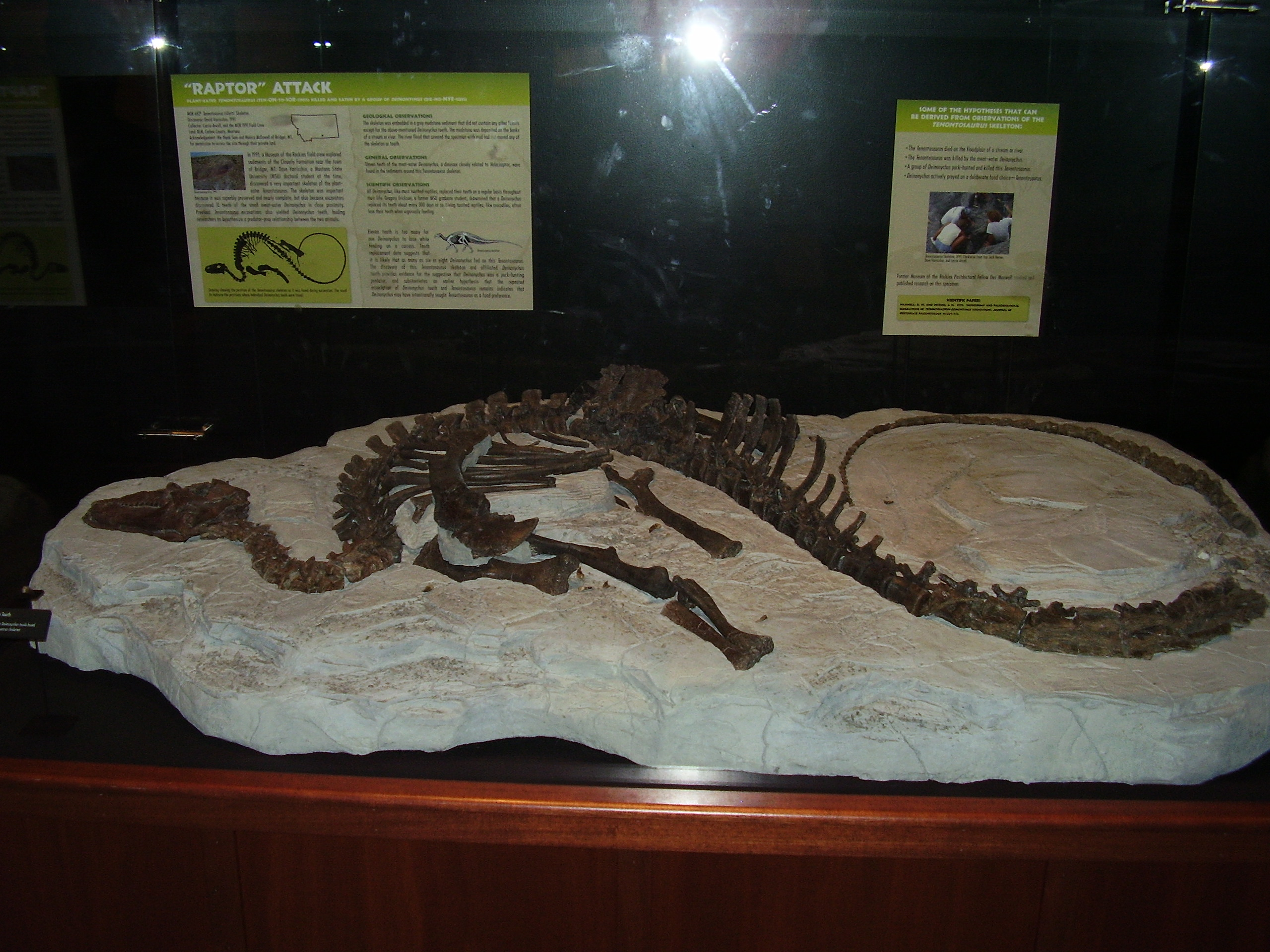 Tenontosaurus skeleton, Museum of the Rockies (Bozeman, Montana).